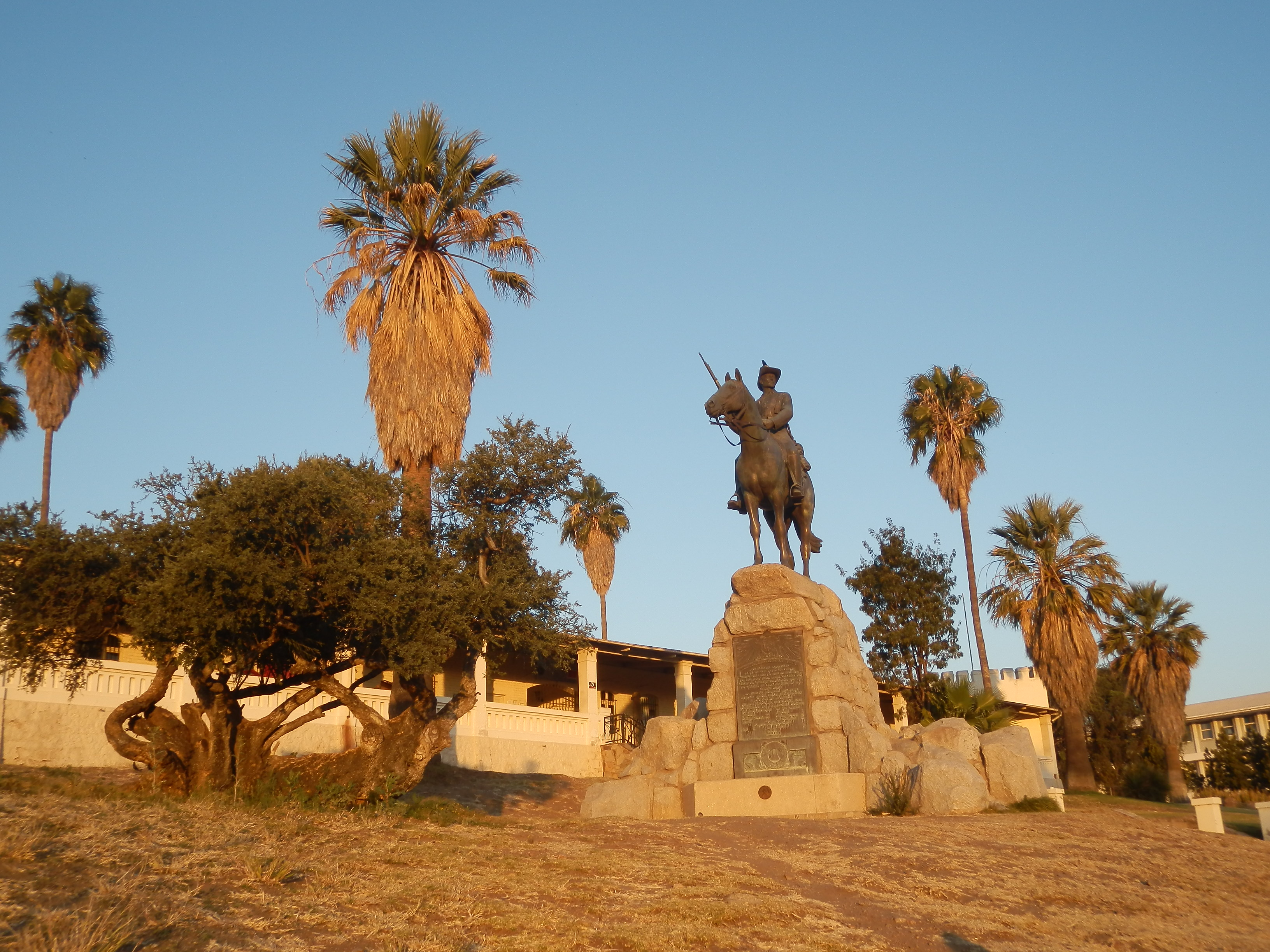 The Reiterdenkmal in Windhoek after having been moved to its new location